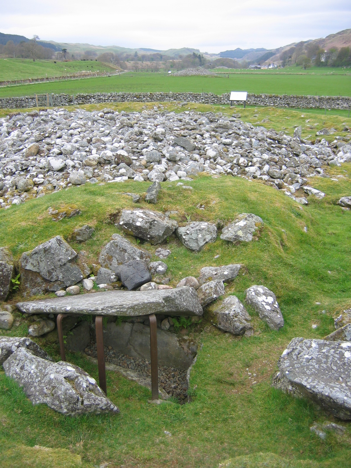 Nether Largie Mid cairn, Kilmartin Glen, Scotland. Cist in te foreground, Nether Largie North and Glebe cairn behind. Looking north.